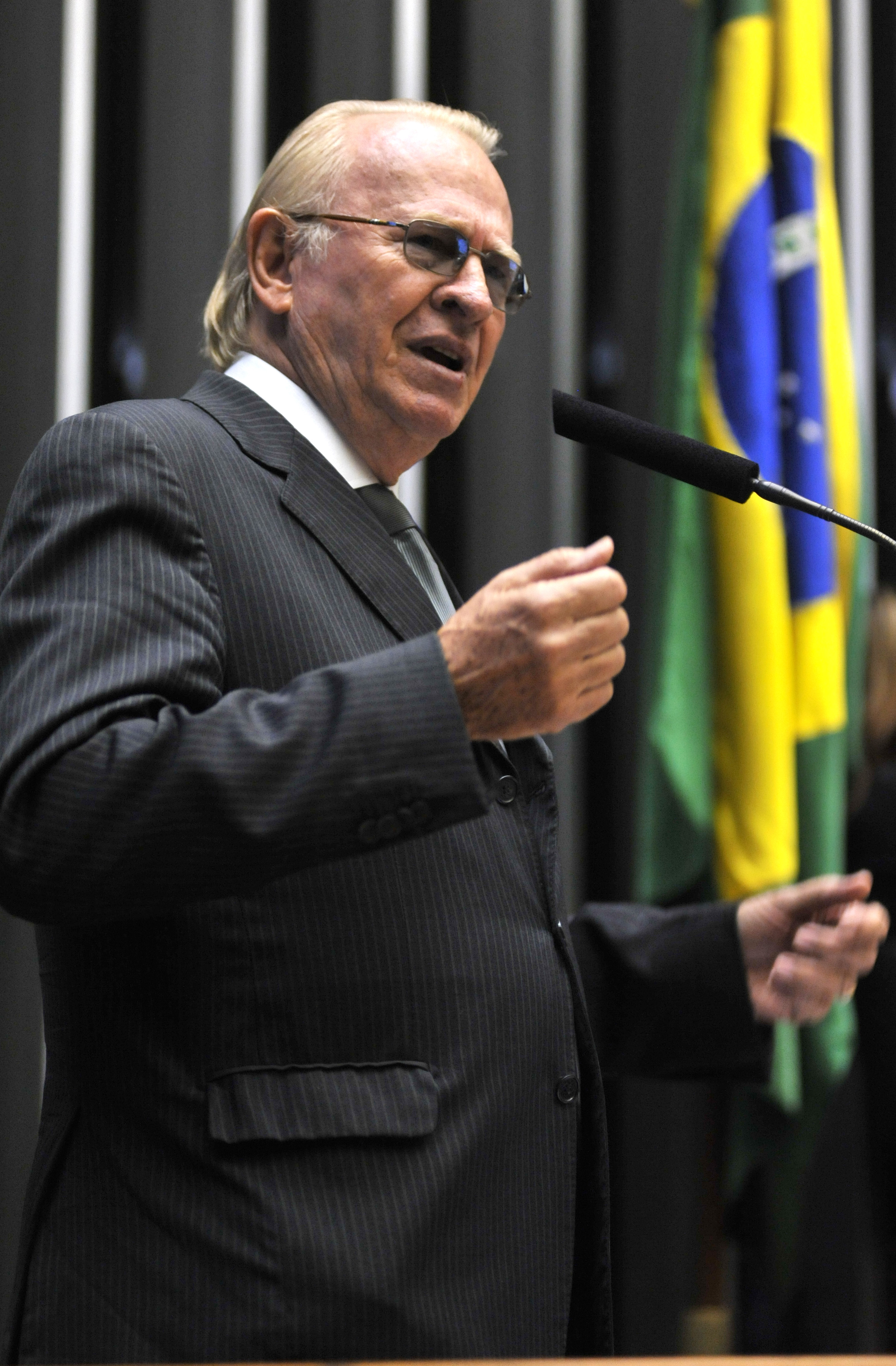 Deputado Federal Josué Bengtson em Grande Expediente realizado na Câmara dos Deputados em 30 de agosto de 2011.